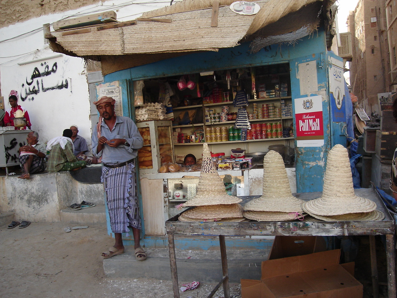 YEMEN - Shibam (Traditional straw hats called madhalla on display)